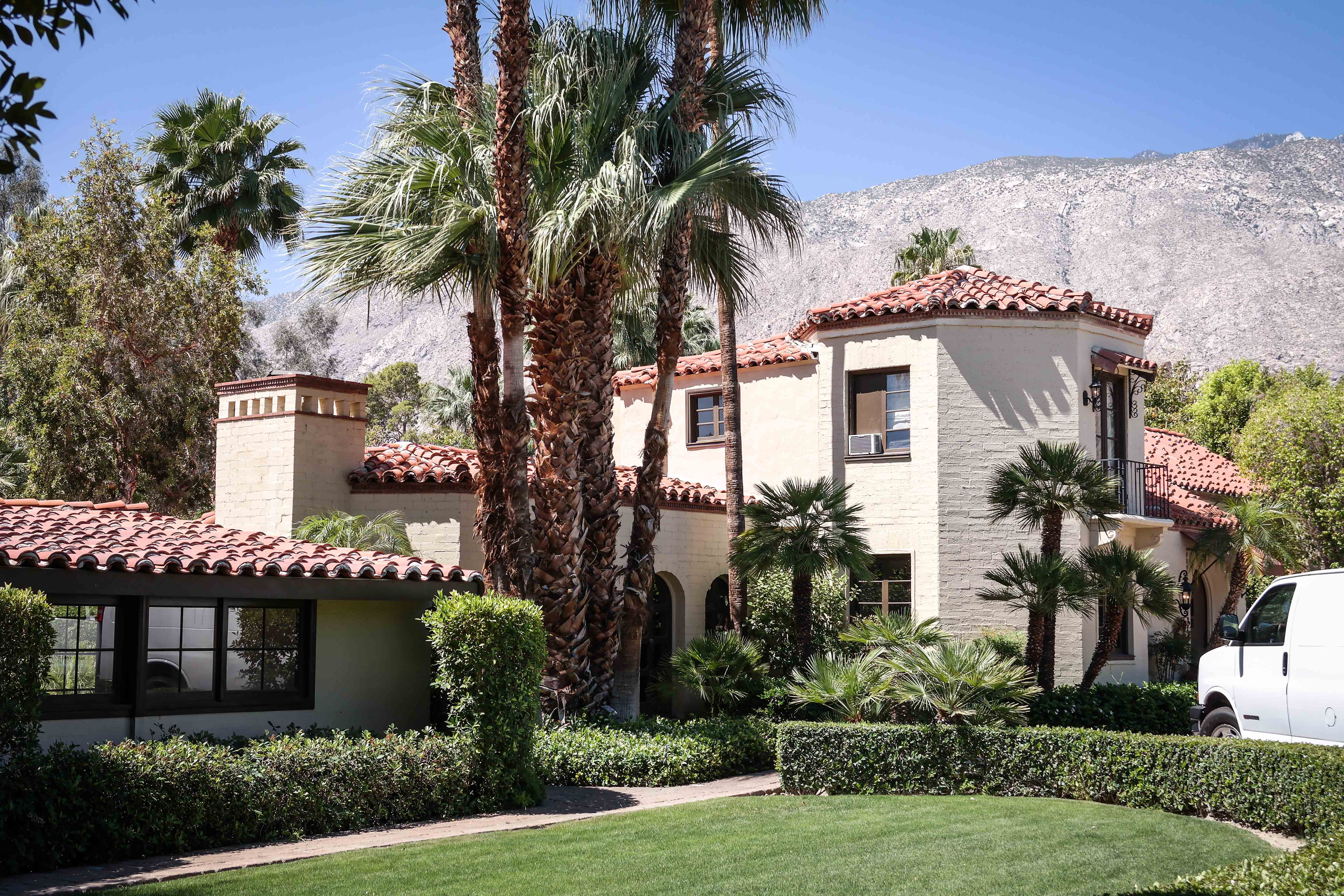 Marilyn Monroe and Joe DiMaggio visited this house in Palm Springs, California